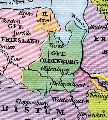 County of Oldenburg and surrounding territories in the 15th century